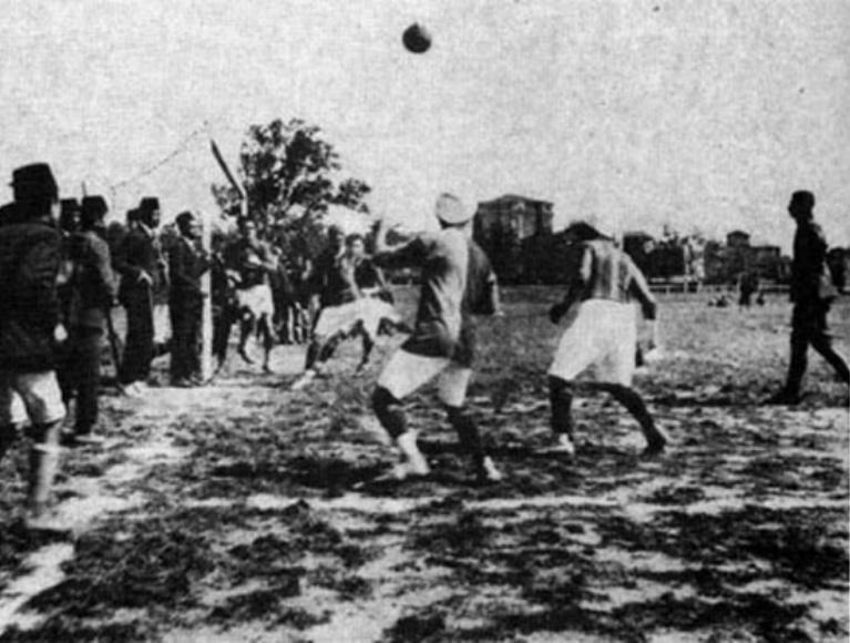 Galatasaray-Fenerbahçe match in Papazın Çayırı (The field of the priest) in the 1910s.